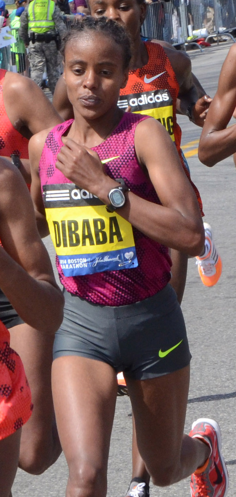 Mare Dibaba in 2014 Boston Marathon where she came in 3rd place. Photo taken in Wellesley near half way point.